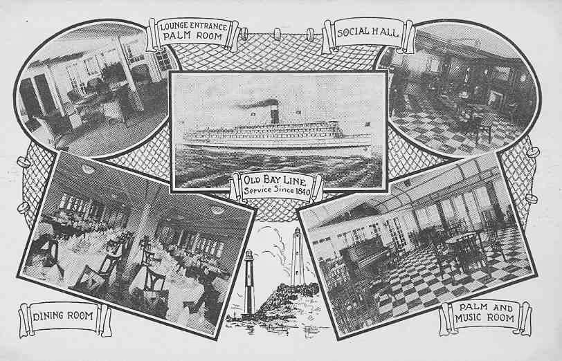 Baltimore Steam Packet Company picture postcard, showing interior views of steamboat